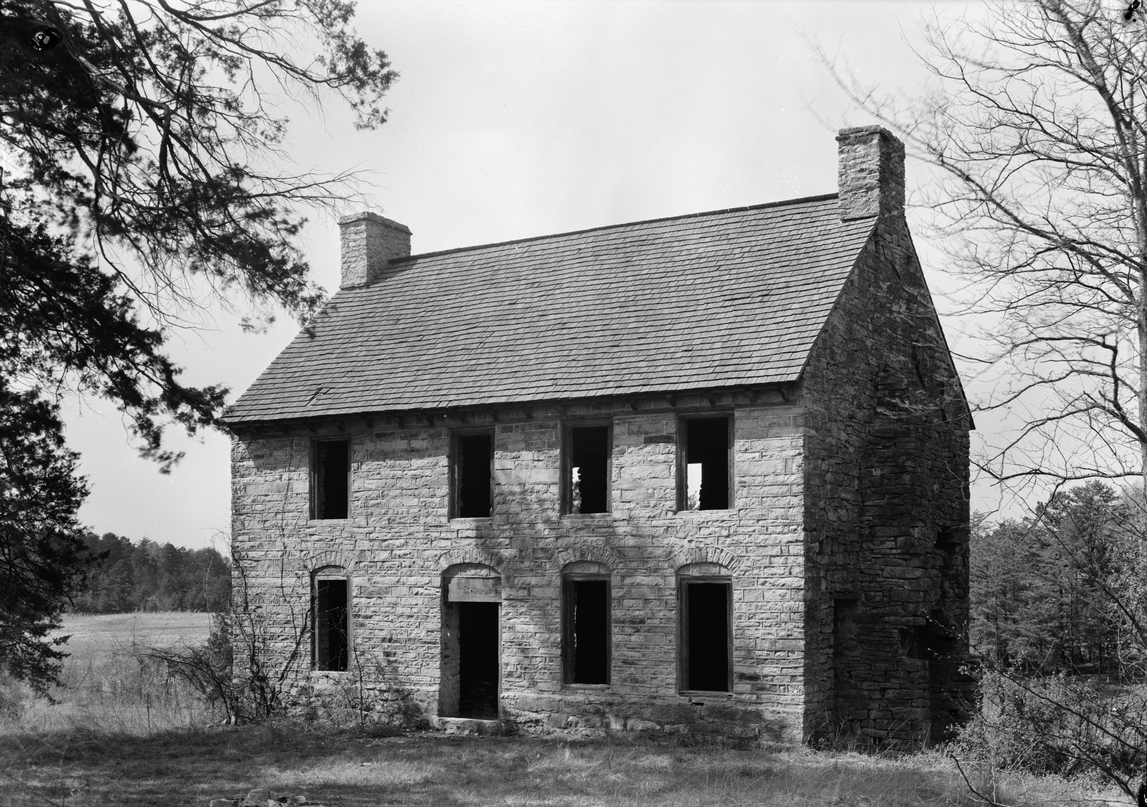 Michael Braun House (built 1760s, stone) — State Route 2308, Granite Quarry vicinity (Rowan County, North Carolina). 1940 photograph from the HABS—Historic American Buildings Survey images of North Carolina (cropped).